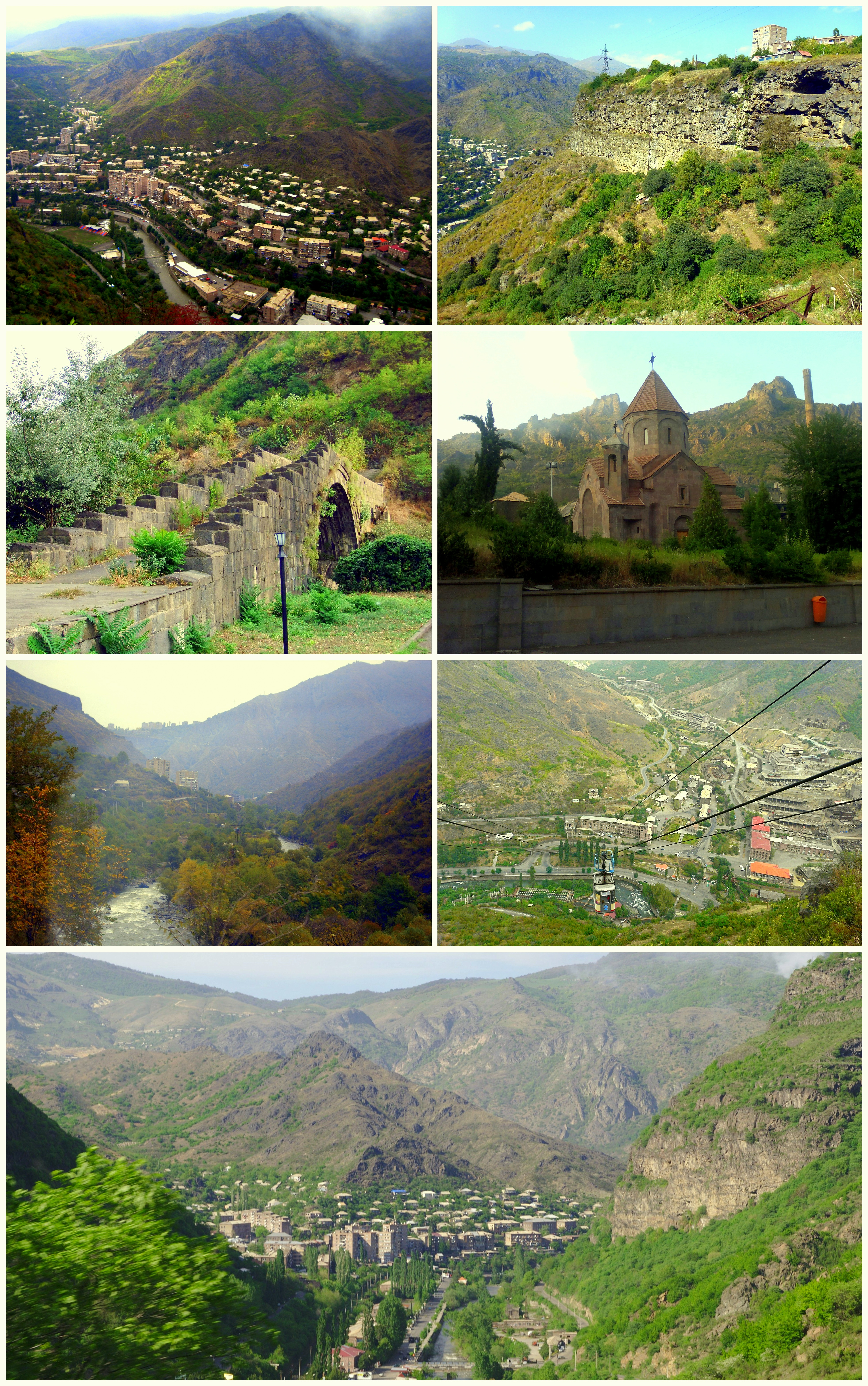 Alaverdi landmarks, Armenia